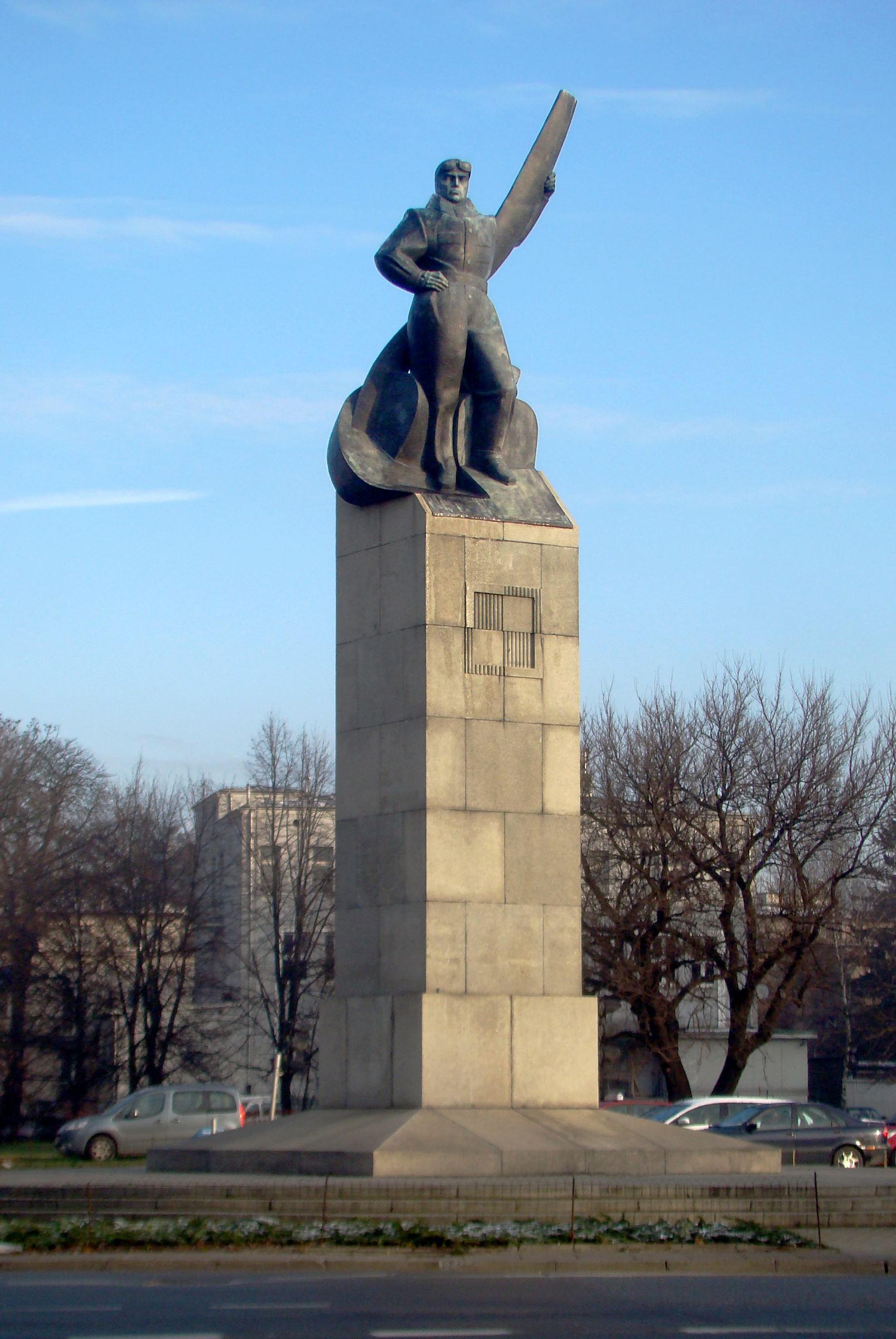 Aviator's monument Warsaw